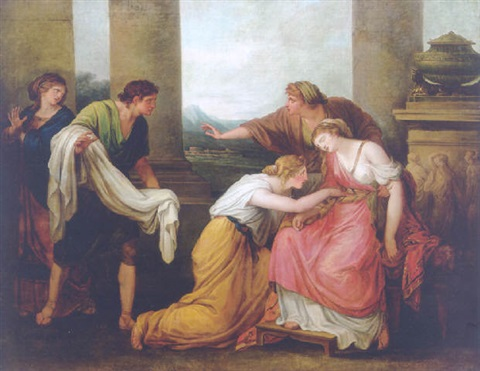 Oil canvas of Julia (daughter of Caesar) fainting